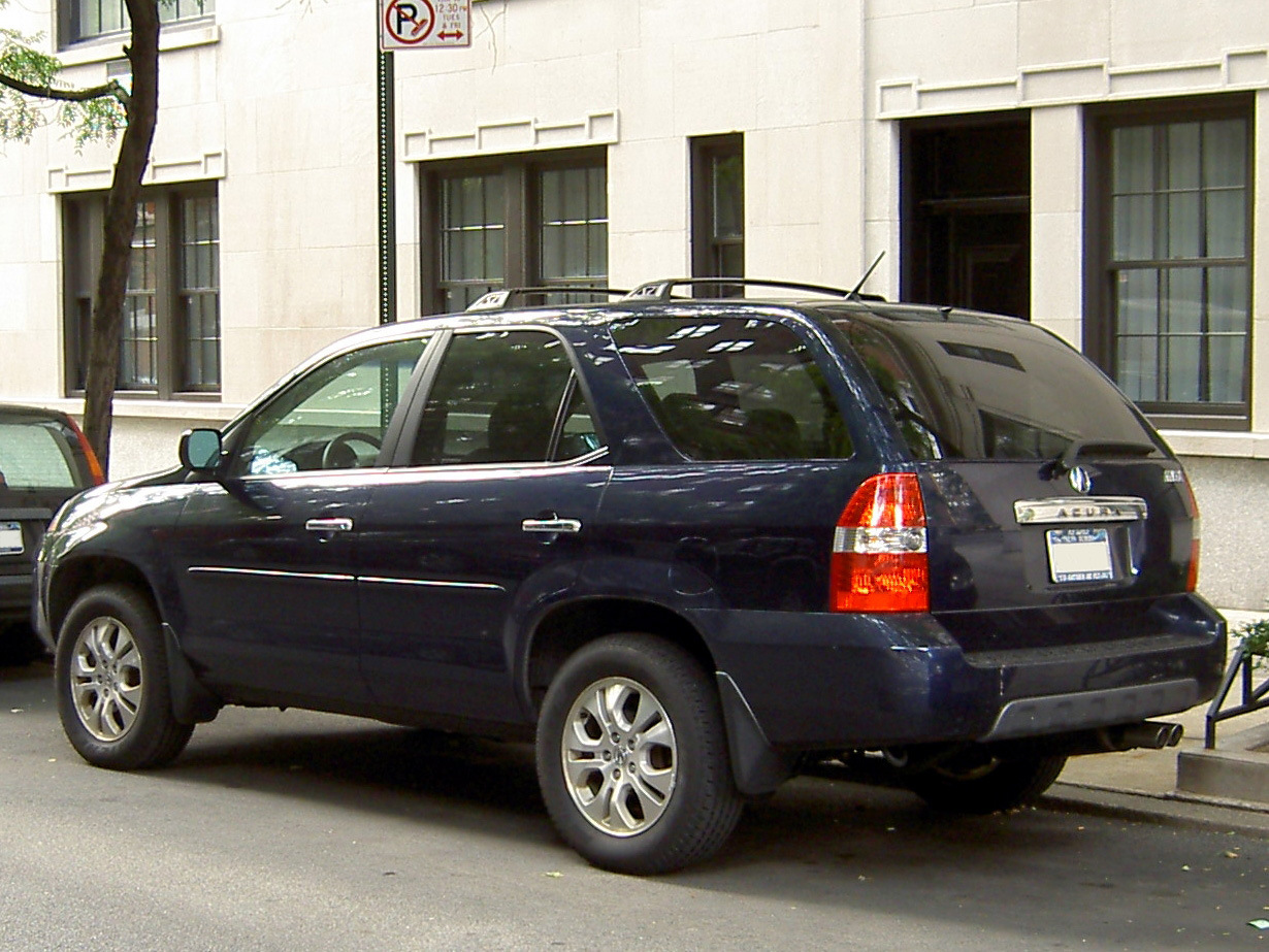 The first generation of Acura MDX, photographed in New York City